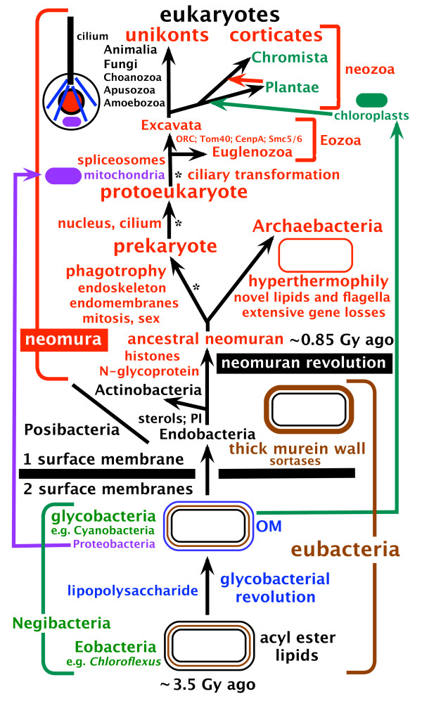 The tree of life and major steps in cell evolution. Archaebacteria are sisters to eukaryotes and, contrary to widespread assumptions, the youngest bacterial phylum. This tree topology, coupled with extensive losses of posibacterial properties by the ancestral archaebacterium, explains (without lateral gene transfer) how eukaryotes possess a unique combination of properties now seen in archaebacteria, posibacteria and a-proteobacteria. Eukaryote origins in three stages indicated by asterisks probably immediately followed divergence of archaebacteria and eukaryote precursors from the ancestral neomuran. This ancestor arose from a stem actinobacterial posibacterium by a quantum evolutionary shake-up of bacterial organization - the neomuran revolution: surface N-linked glycoproteins replaced murein; ribosomes evolved the signal recognition particle’s translational arrest domain; histones replaced DNA gyrase, radically changing DNA replication, repair, and transcription enzymes. The eukaryote depicted is a hypothetical early stage after the origin of nucleus, mitochondrion, cilium, and microtubular skeleton but before distinct anterior and posterior cilia and centriolar and ciliary transformation (anterior cilium young, posterior old) evolved (probably in the cenancestral eukaryote). Kingdom Chromista was recently expanded to include not only the original groups Heterokonta, Cryptista and Haptophyta, but also Alveolata, Rhizaria and Heliozoa, making the name chromalveolates now unnecessary. Excavata now exclude Euglenozoa and comprise just three phyla: the ancestrally aerobic Percolozoa and Loukozoa and the ancestrally anaerobic Metamonada (e.g. Giardia, Trichomonas), which evolved from an aerobic Malawimonas-related loukozoan. Sterols and phosphatidylinositol (PI) probably evolved in the ancestral stem actinobacterium but the ancestral hyperthermophilic archaebacterium lost them when isoprenoid ethers replaced acyl ester lipids.